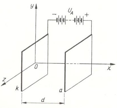 Configuration of electrode